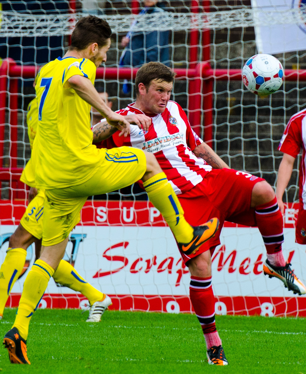 In a game of two halves, the Robins fought from a goal down at half time, to beat the Lions 4-1.